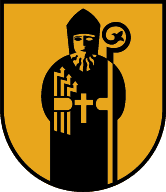 Source: "Fahnen-Gärtner GmbH, Mittersill" This file depicts a coat of arms. The composition of coats of arms are generally public domain with respect to copyright laws, and may be reproduced freely. This corresponds to the international traditional usage, and is explicitly stated in some national copyright laws. Some compositions, of more recent origin, may be copyrighted. This is not a valid license as such, being a "public domain" statement for the coat of arms definition only. It must be completed with the copyright tag associated to the picture creation. See Commons:Coats of arms for further information. Please note that this applies only to the coat of arms definition (composition / description). The representation of a coat of arms is an artistic creation, subject as such to copyright laws. Restriction of use - Legal notice: Most of the time, the usage of coats of arms is governed by legal restrictions, independent of the status of the depiction shown here. A coat of arms represents its owner. Though it can be freely represented, it cannot be appropriated, or used in such a way as to create a confusion with or a prejudice to its owner. Usage on Commons: Please provide licence information for the coat of arm representation, information for the author of the picture, and the source if not self-made work. This image is in the public domain according to Austrian copyright law because it is part of a law, ordinance or official decree issued by an Austrian federal or state authority, or because it is of predominantly official use. (§7 UrhG) To uploader: Please provide where the image was first published and who created it.